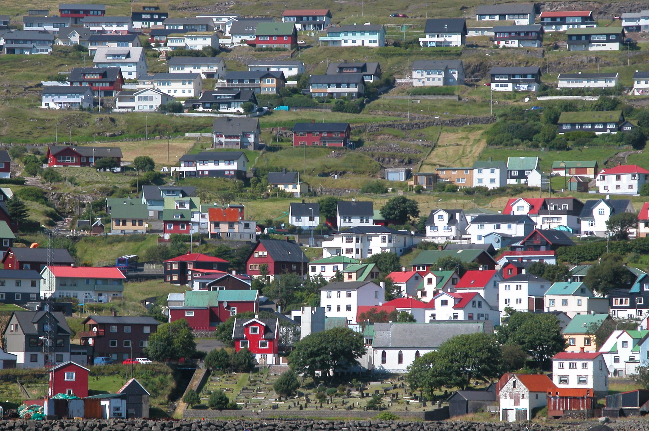 Vestmanna on Streymoy, Faroe Islands